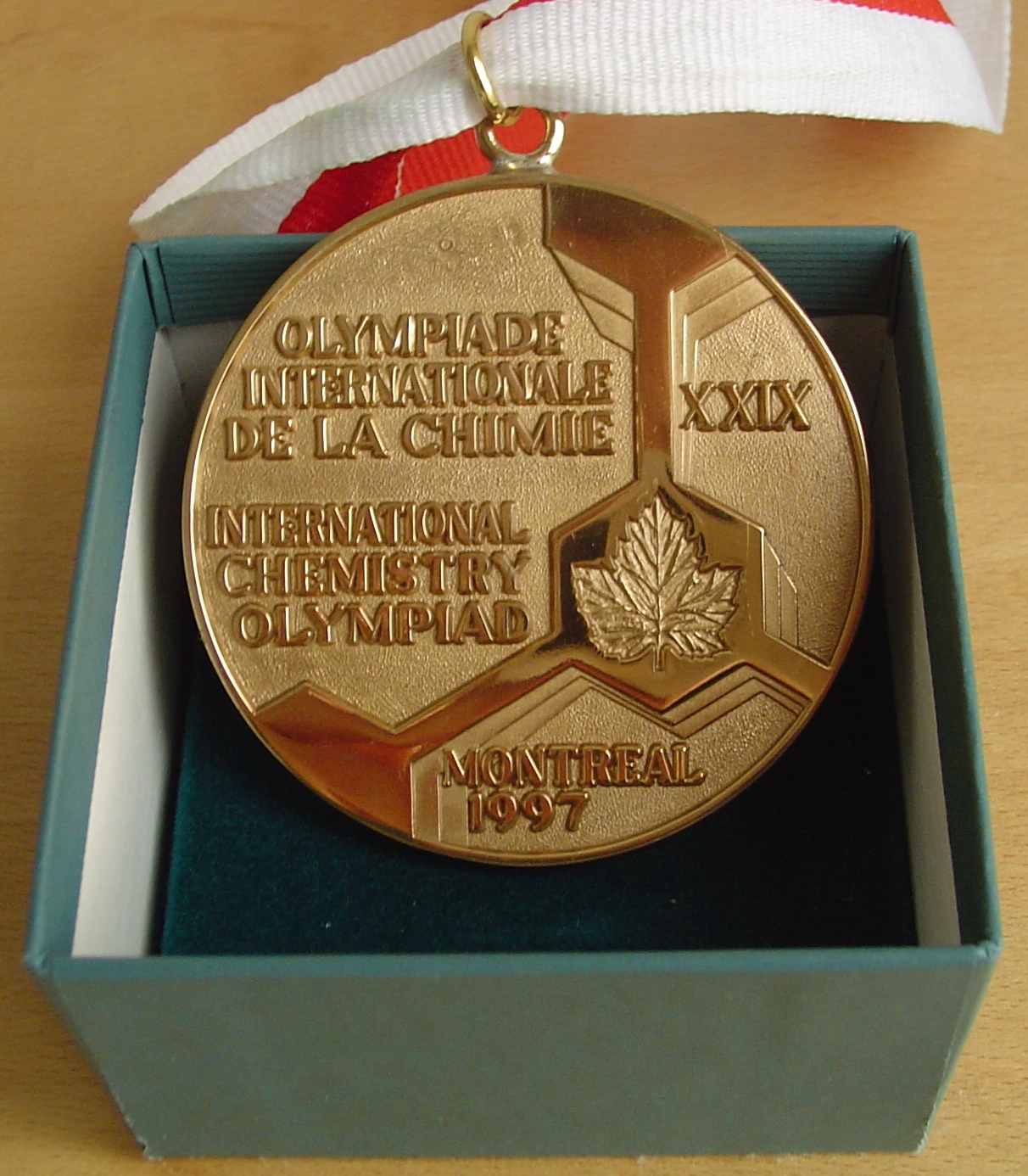 An IChO bronze medal. Photo taken by user:Thue on 29/7-2005.